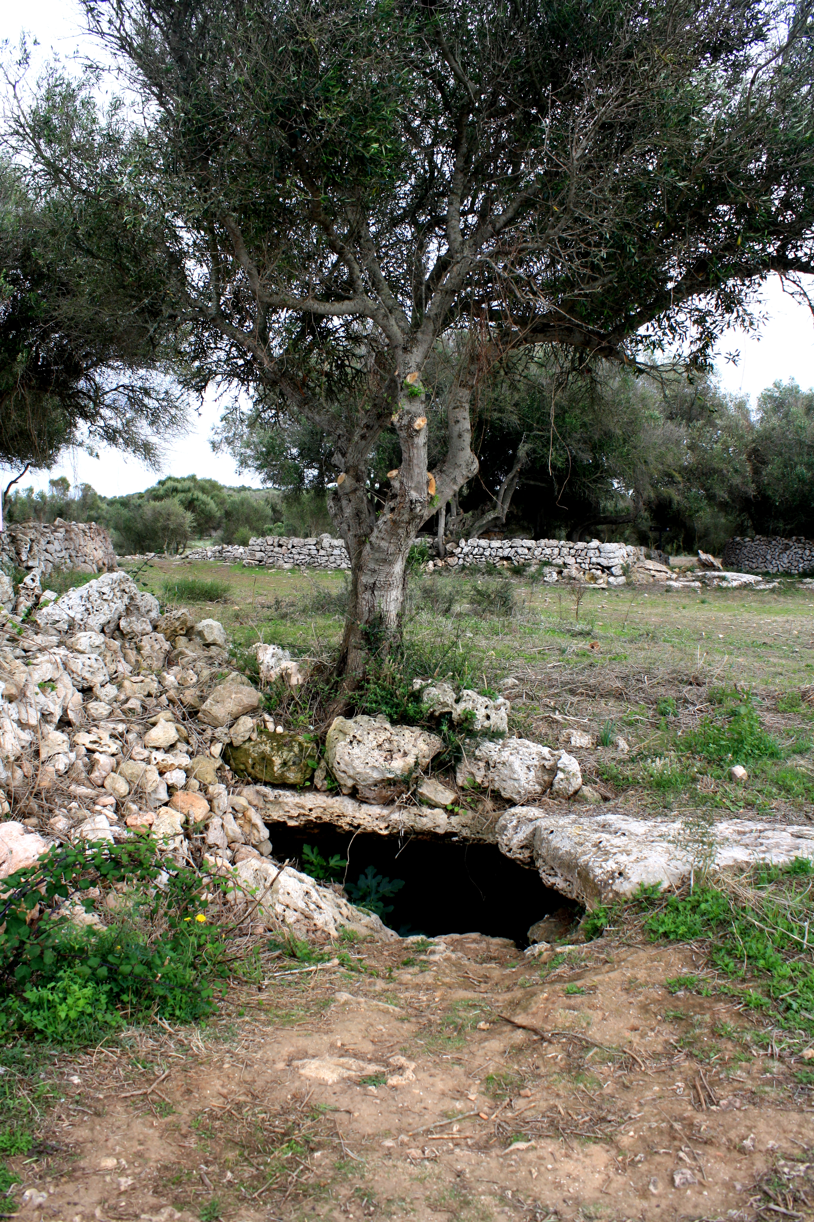 Entrance to a hypogeum in the prehistoric settlement Torretrencada, Ciutadella, Minorca.